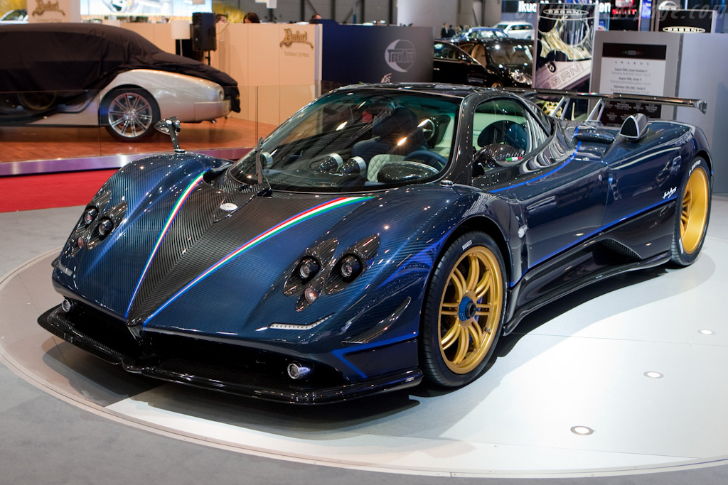 Tricolore